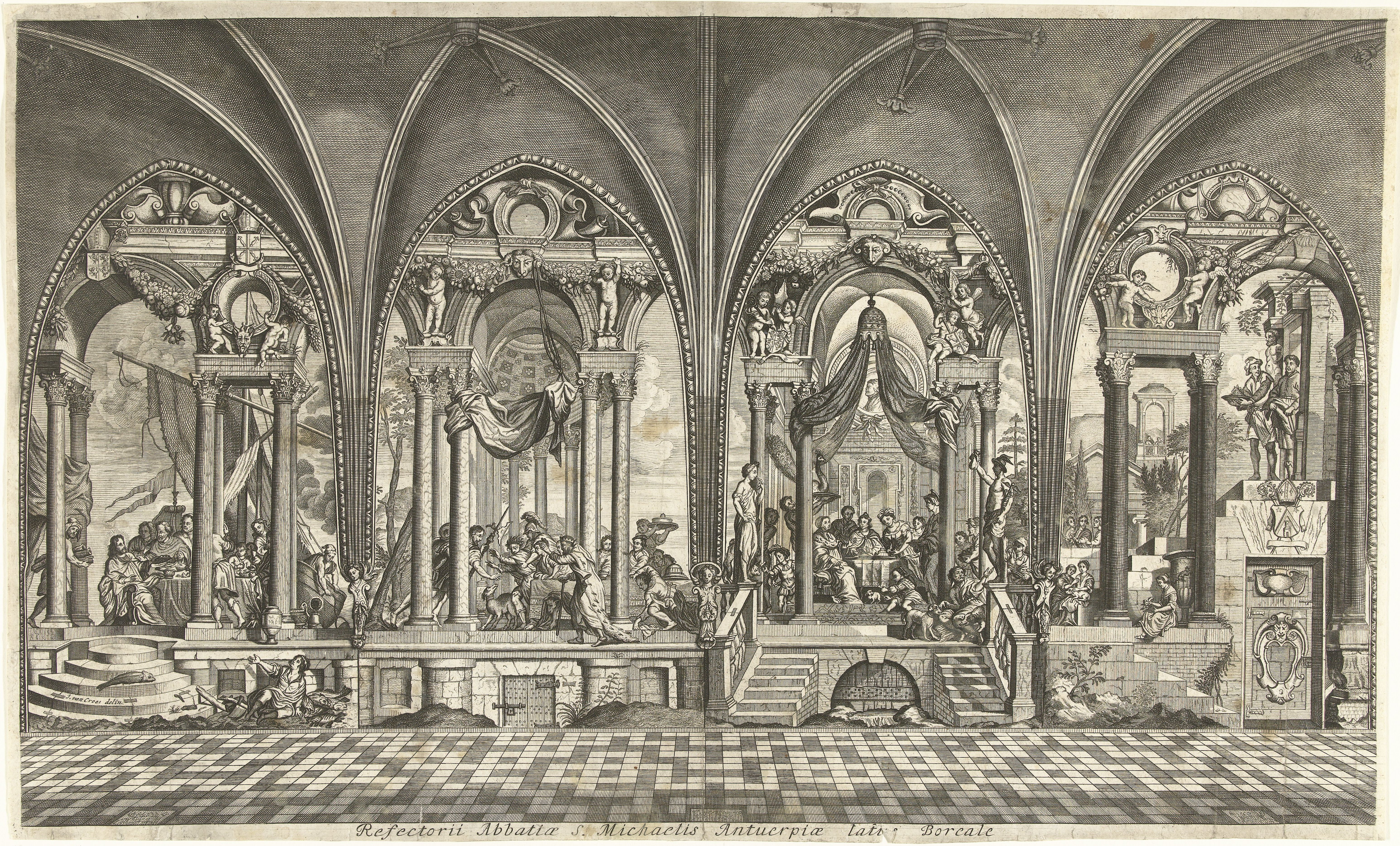 An engraving showing the paintings by Jan Erasmus Quellinus in the refectory of the Sint-Michielsabdij, Antwerp